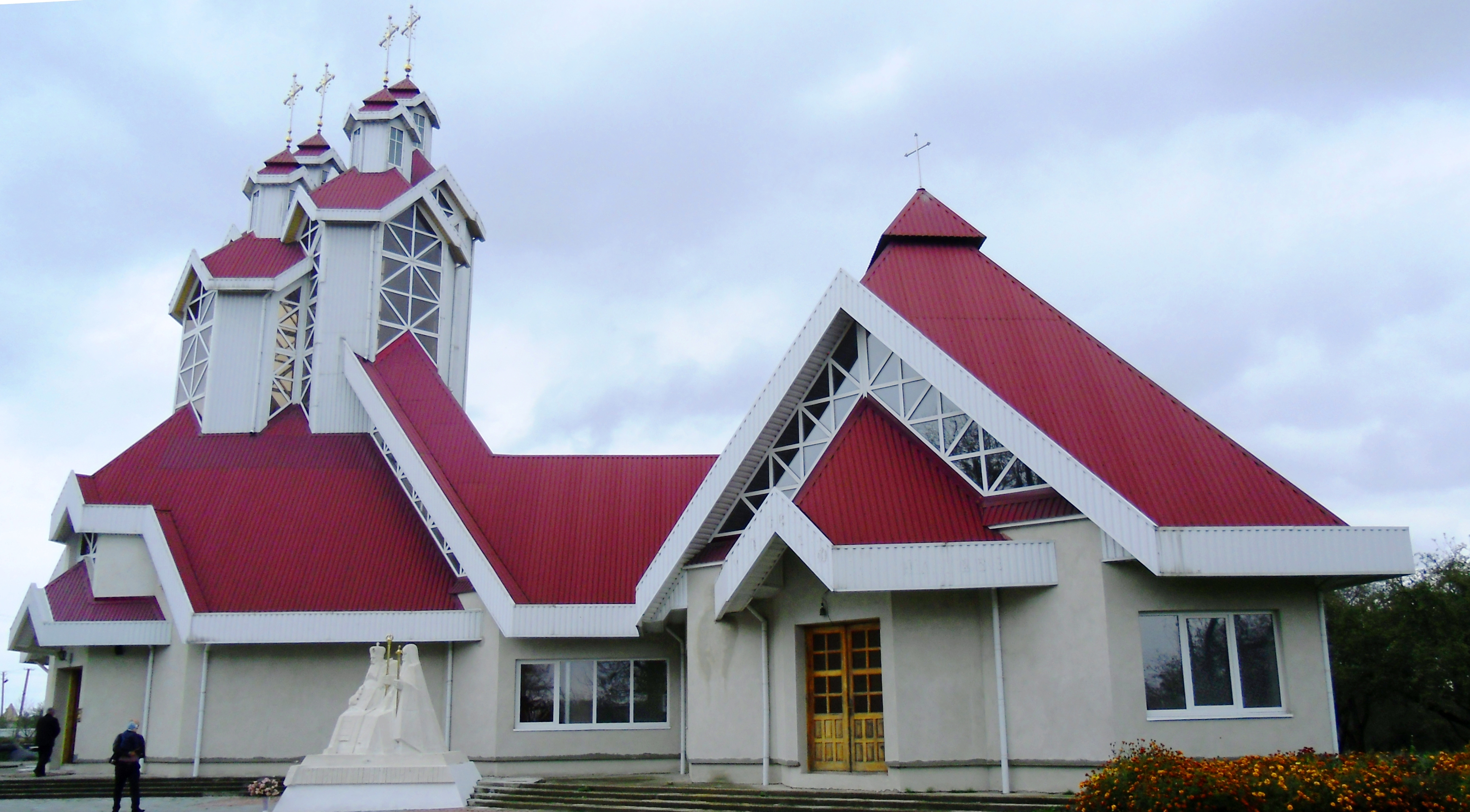 The newly built Greek Catholic Church and the museum of name Metropolitan Andrey Sheptytsky in the village Prylbychi.